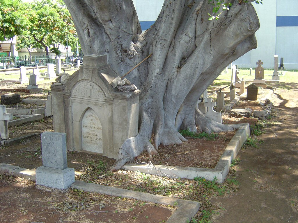 Ficus growing on gravesite Honolulu Catholic Cemetery Picture taken and uploaded by User:Aloysius Patacsil.